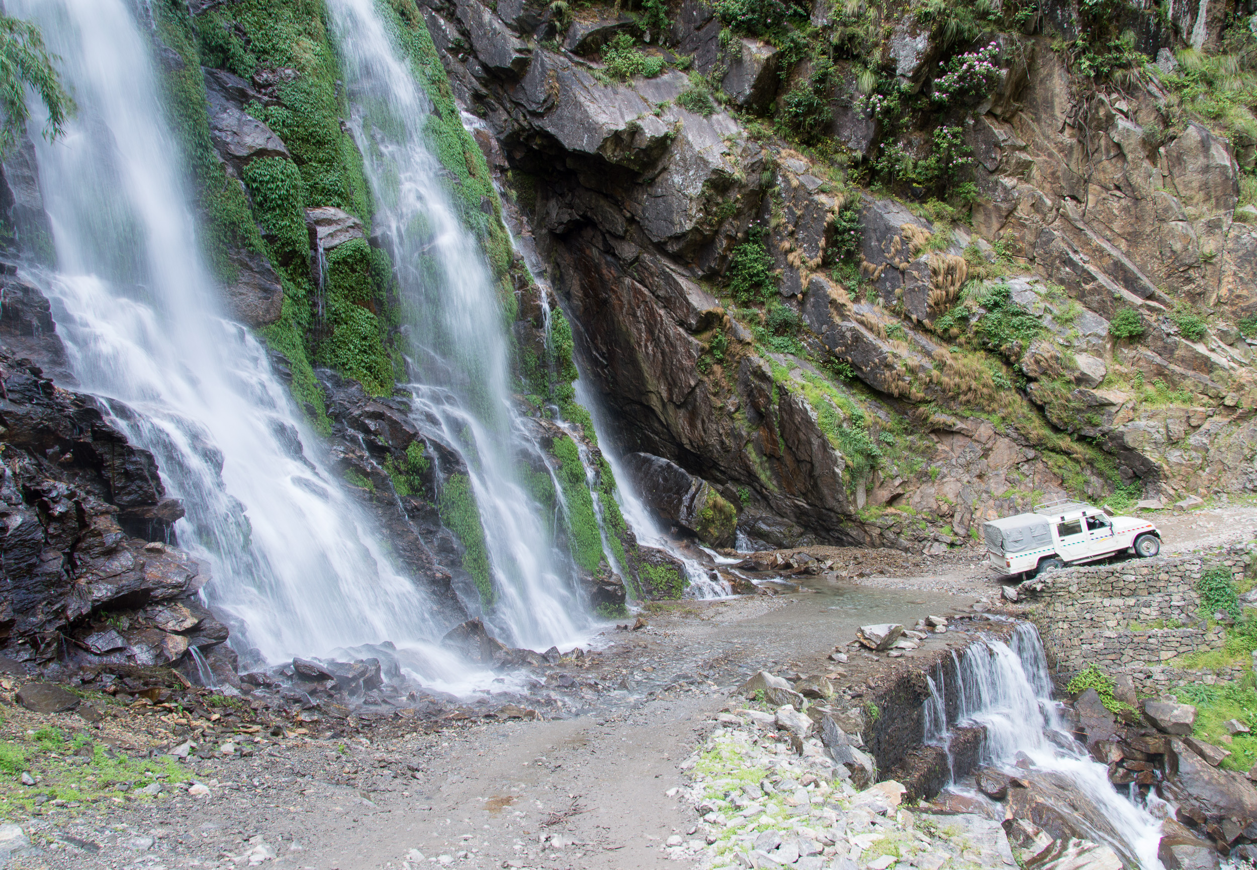 Waterfall / Annapurna Circuit, Nepal